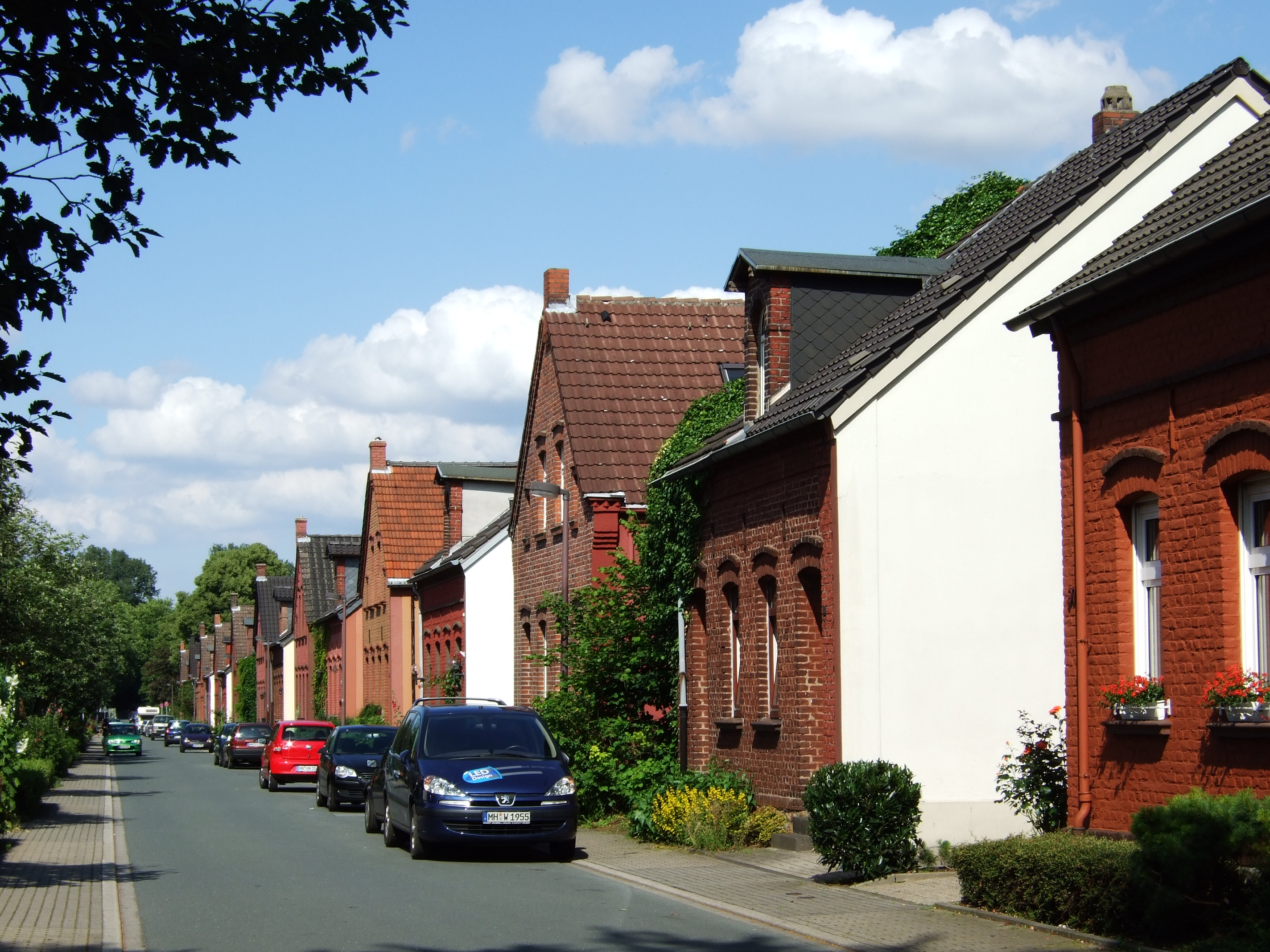 View from the west.